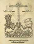 Liber Sacrosancti Evangelii de Iesu Christo Domino et Deo nostro Edited by J. A. Widmanstetter. Vienna: M. Zimmermann, 1555